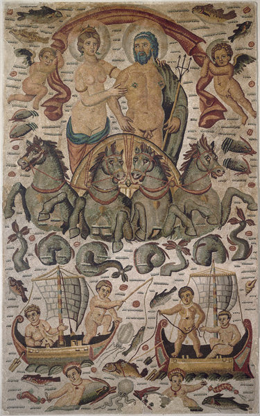 "Triumph of Neptune and Amphitrite", a Roman mosaic from Cirta, now in the Louvre (ca. 315-325 AD)